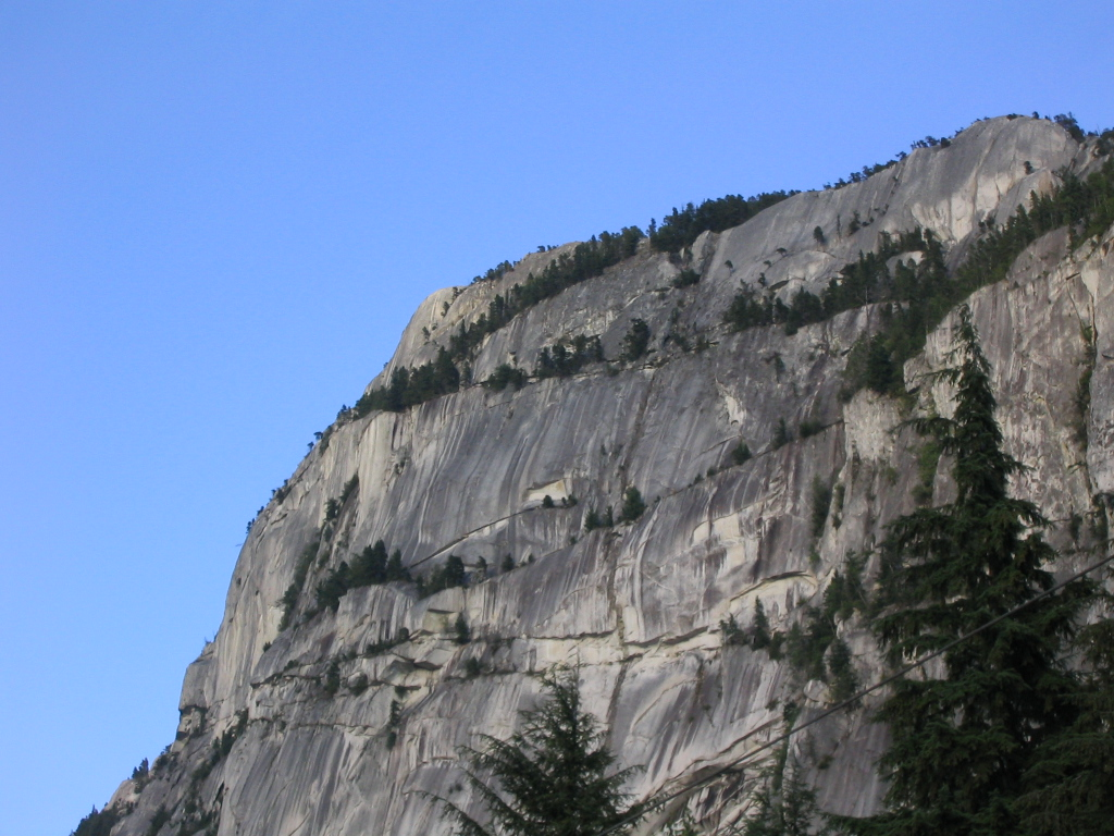 Photo taken of the Stawamus Chief. Taken in Squamish, British Columbia on August 20th, 2005.